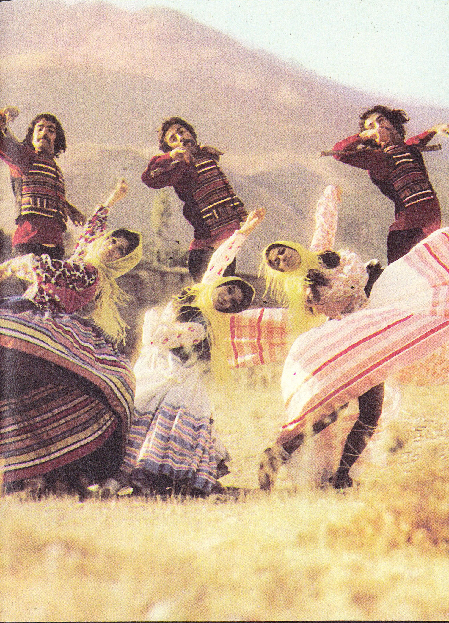 Folk dance Iran